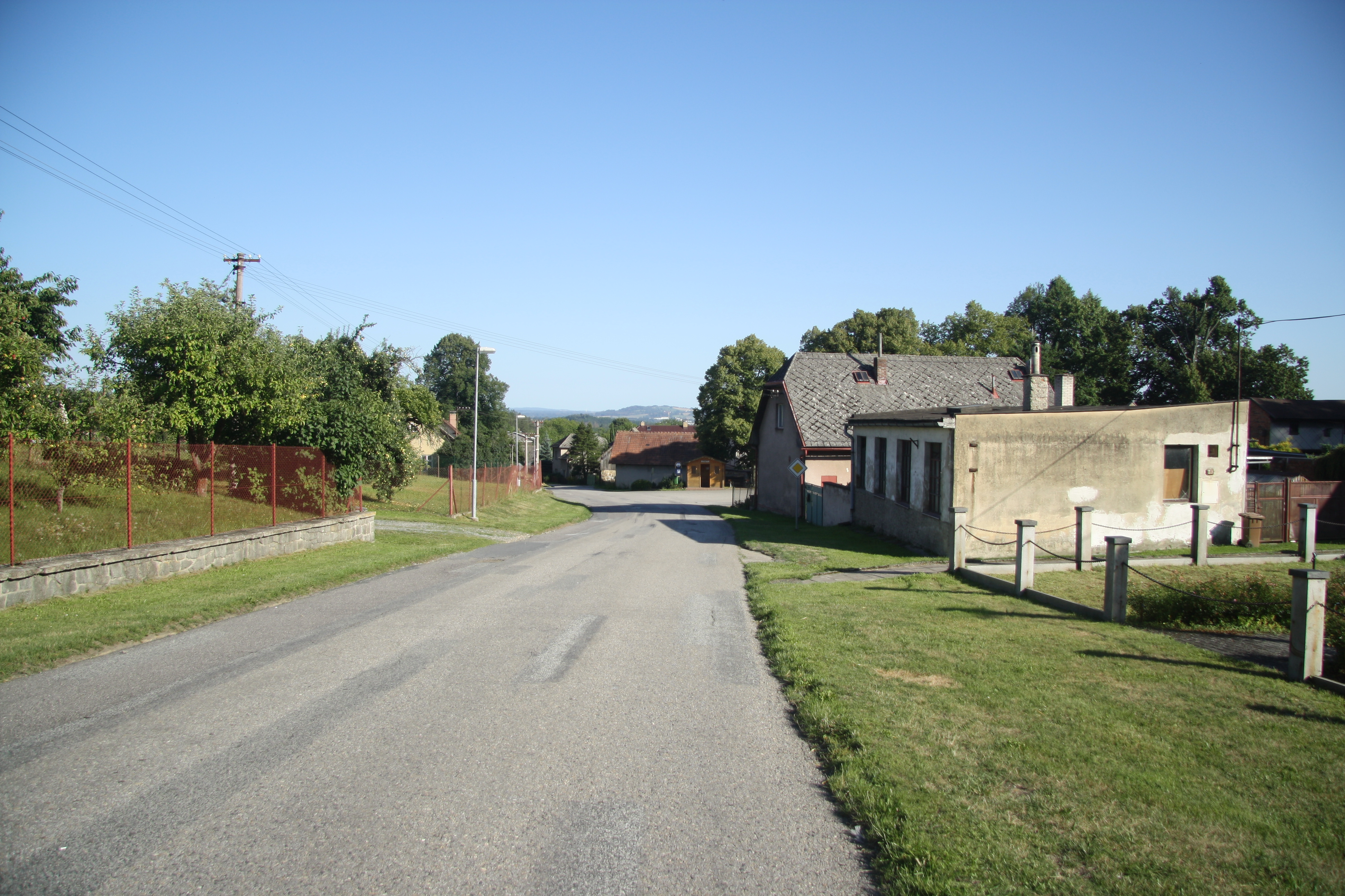 Road near center in Veselý Žďár, Havlíčkův Brod District.